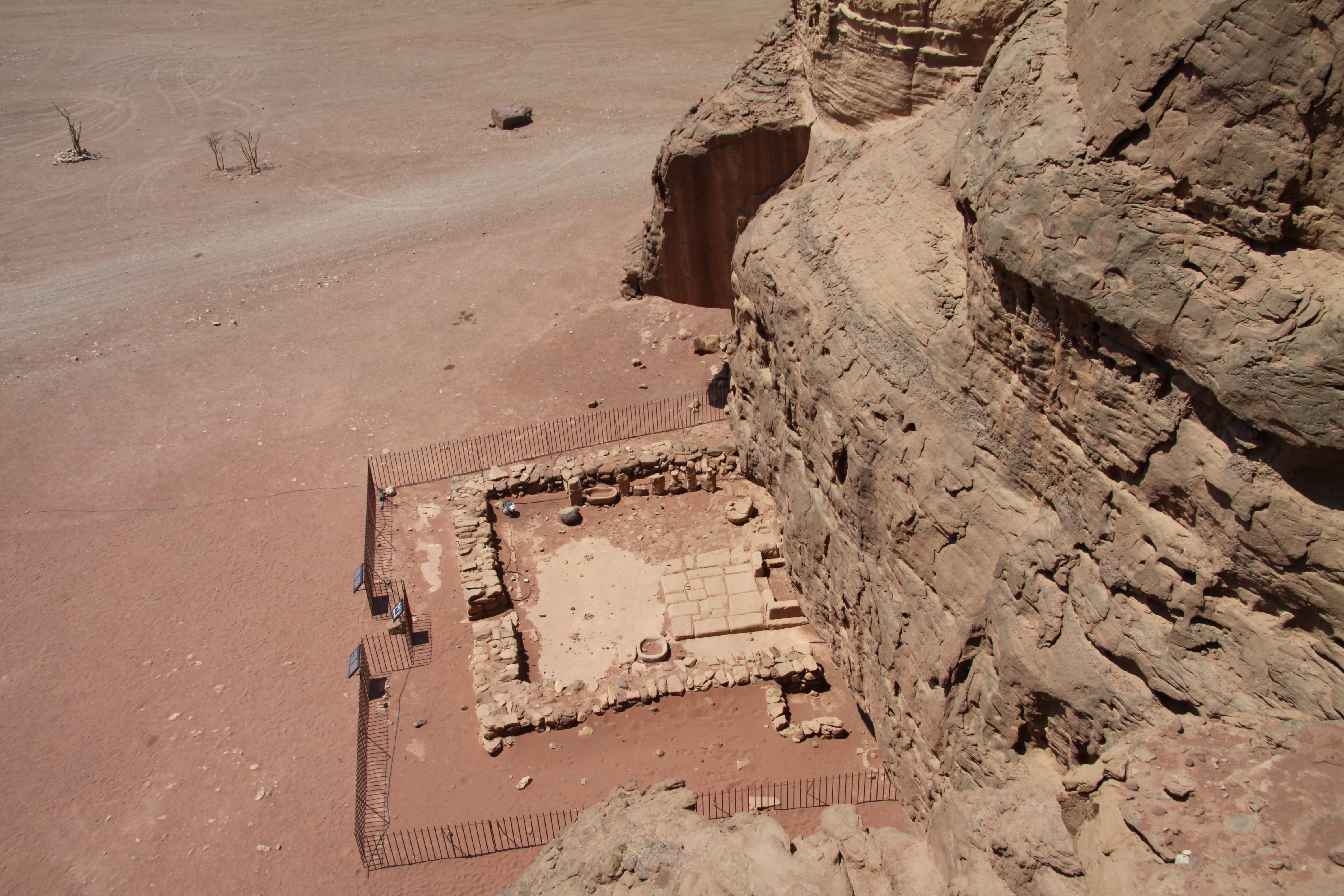 Temple of Hathor in Timna Park, Southern Israel - Google Maps - Google Earth